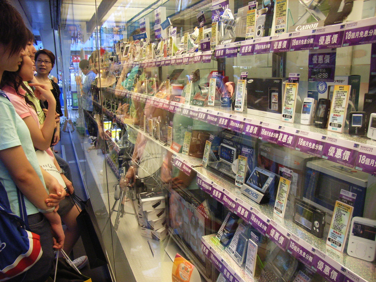 Sai Yeung Choi Street, Mongkok, Kln Photo by TonySKTO